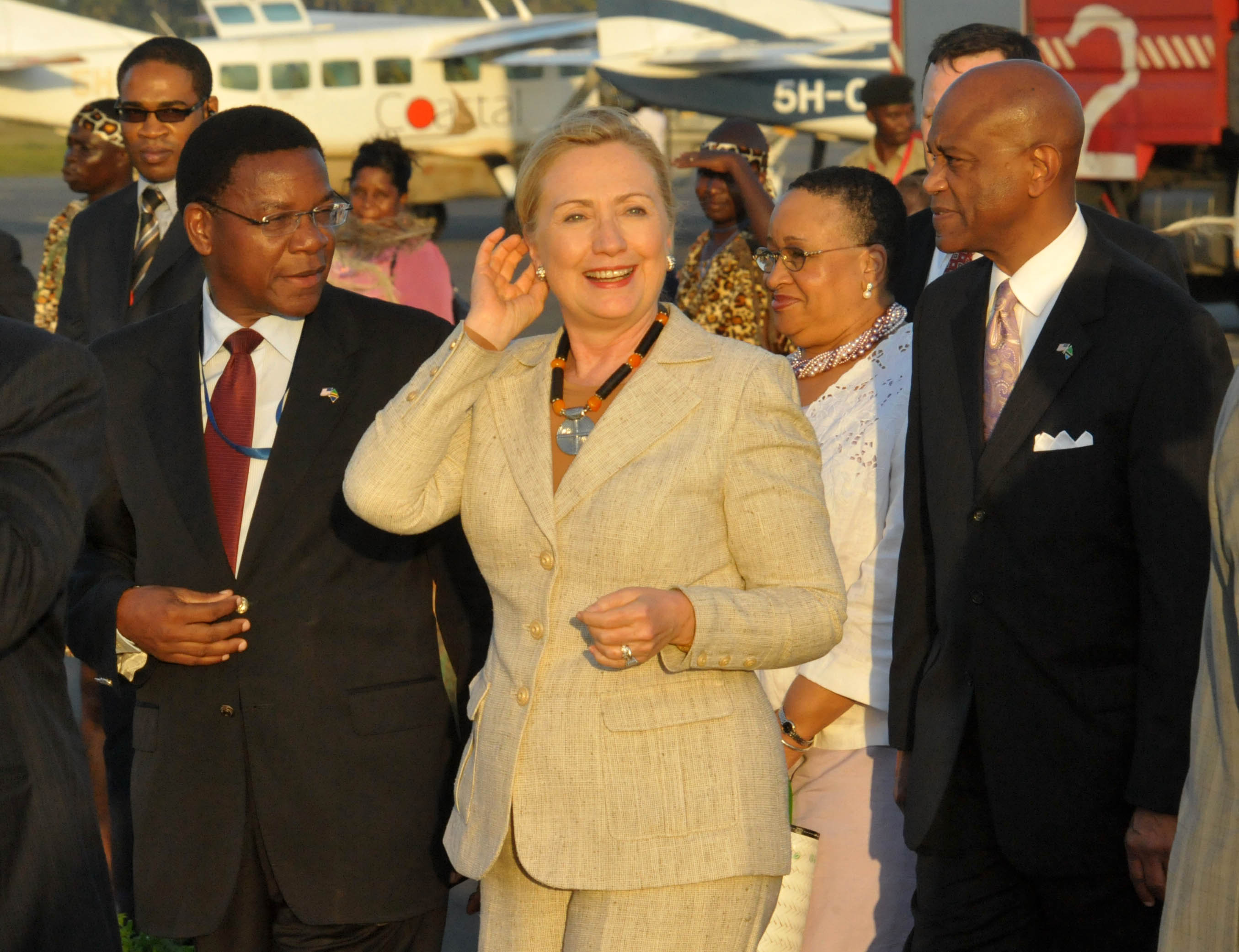 U.S Secretary of State Hillary Rodham Clinton speaks with Tanzanian Foreign Affairs and International Cooperation Minister Bernard Membe, left, and U.S. Ambassador to Tanzania Alfonso E. Lenhardt, right, on arrival at the Julius Nyerere International Airport in Dar es Salaam, Tanzania, on June 11, 2011.